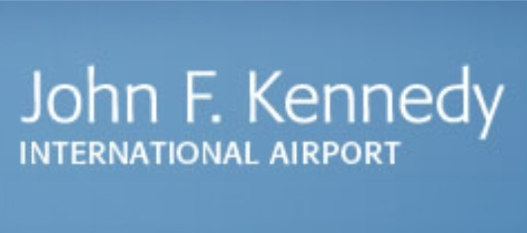 This is the logo of John F. Kennedy International Airport, located in New York, NY.